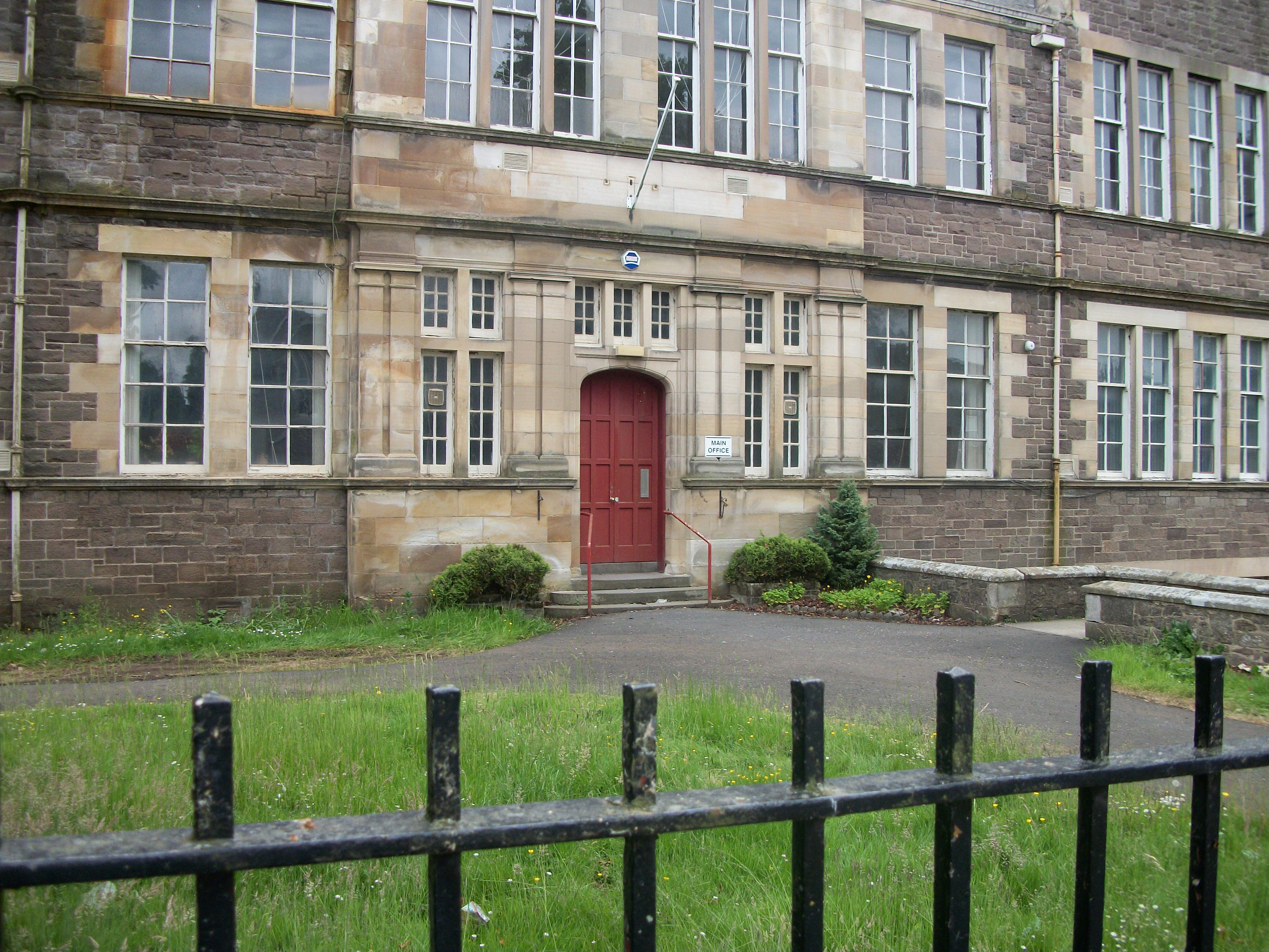 The main entrance to the Albany Drive campus of the school. Closed in December 2009. Photograph taken June 2010, after demolition of the building had begun (part shown still in tact).